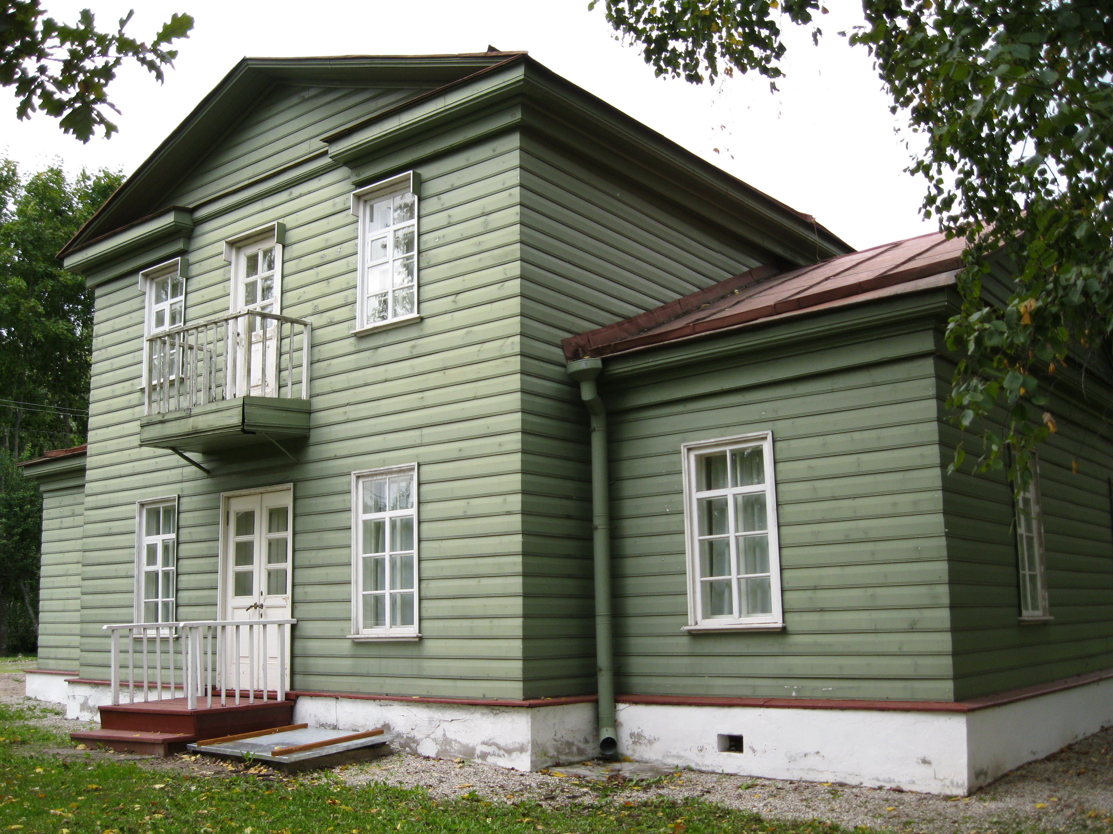 Russian poet Nekrasov museum in Chudovo, Russia